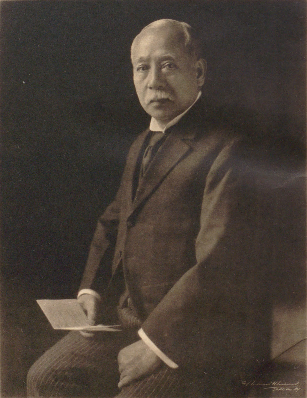 Portrait of Kondo Renpei (近藤廉平, 1848 – 1921)